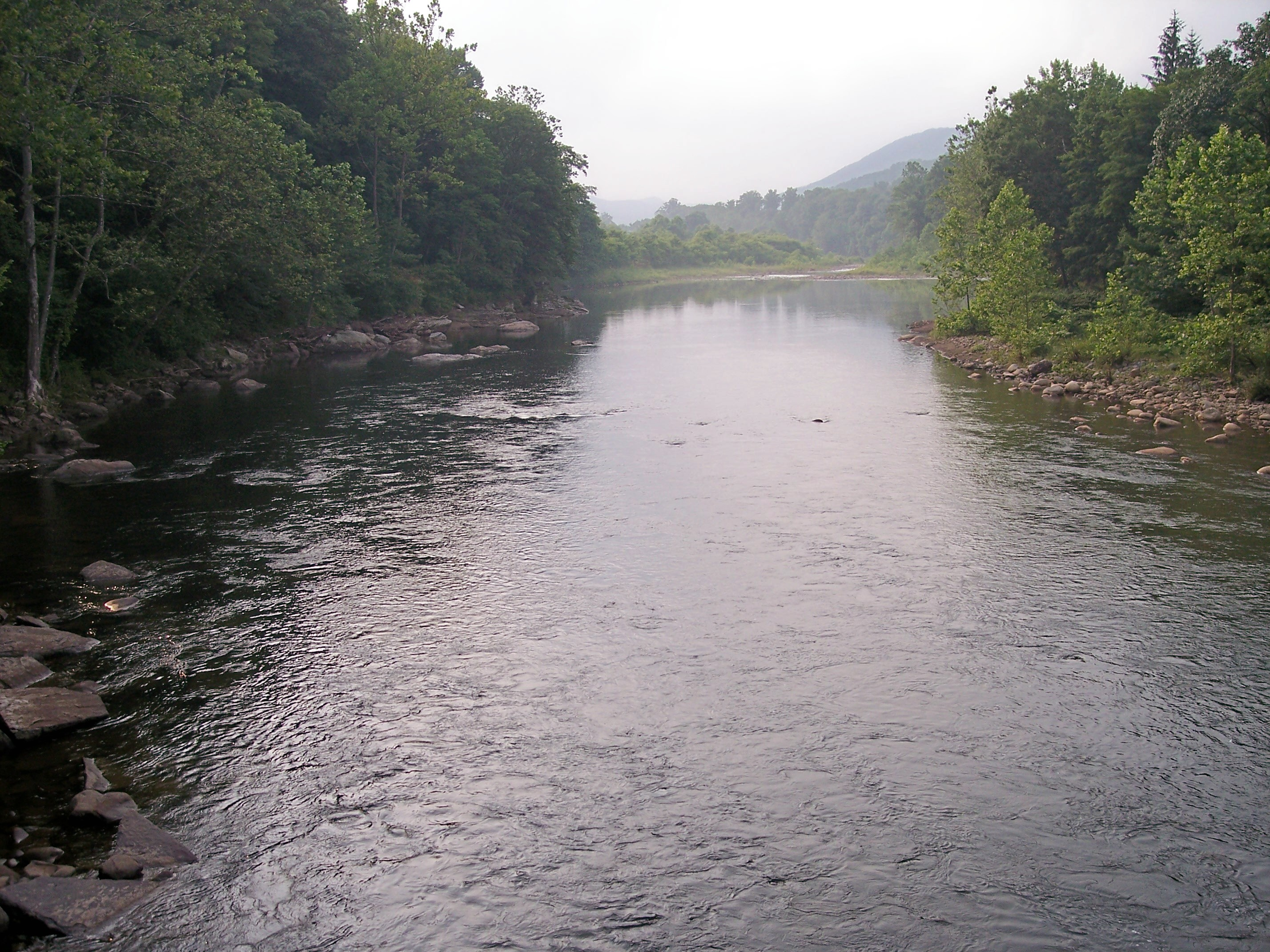 Downstream view of the Black Fork at Hendricks, West Virginia